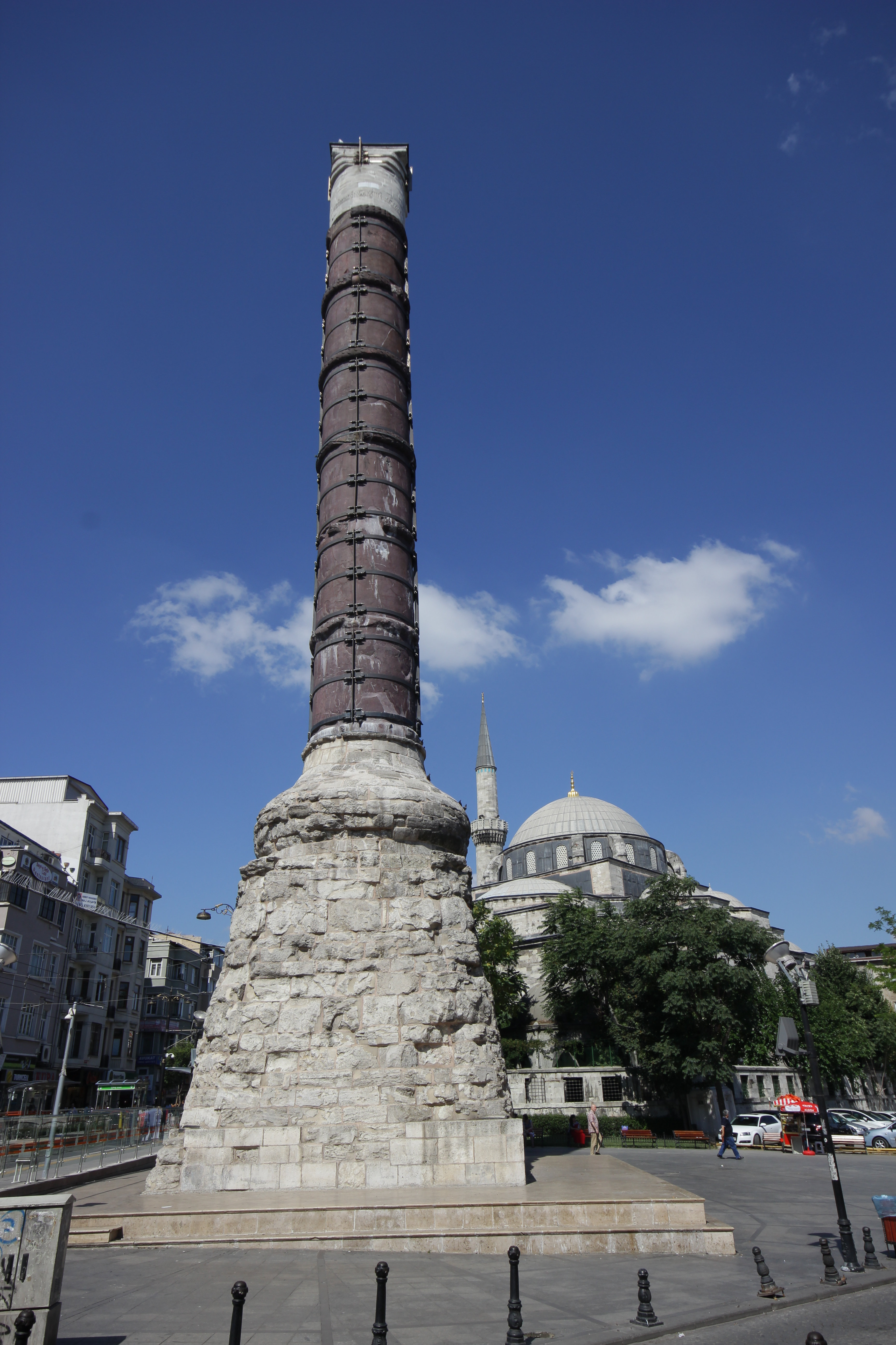 The Column of Constantine seen from south-east.